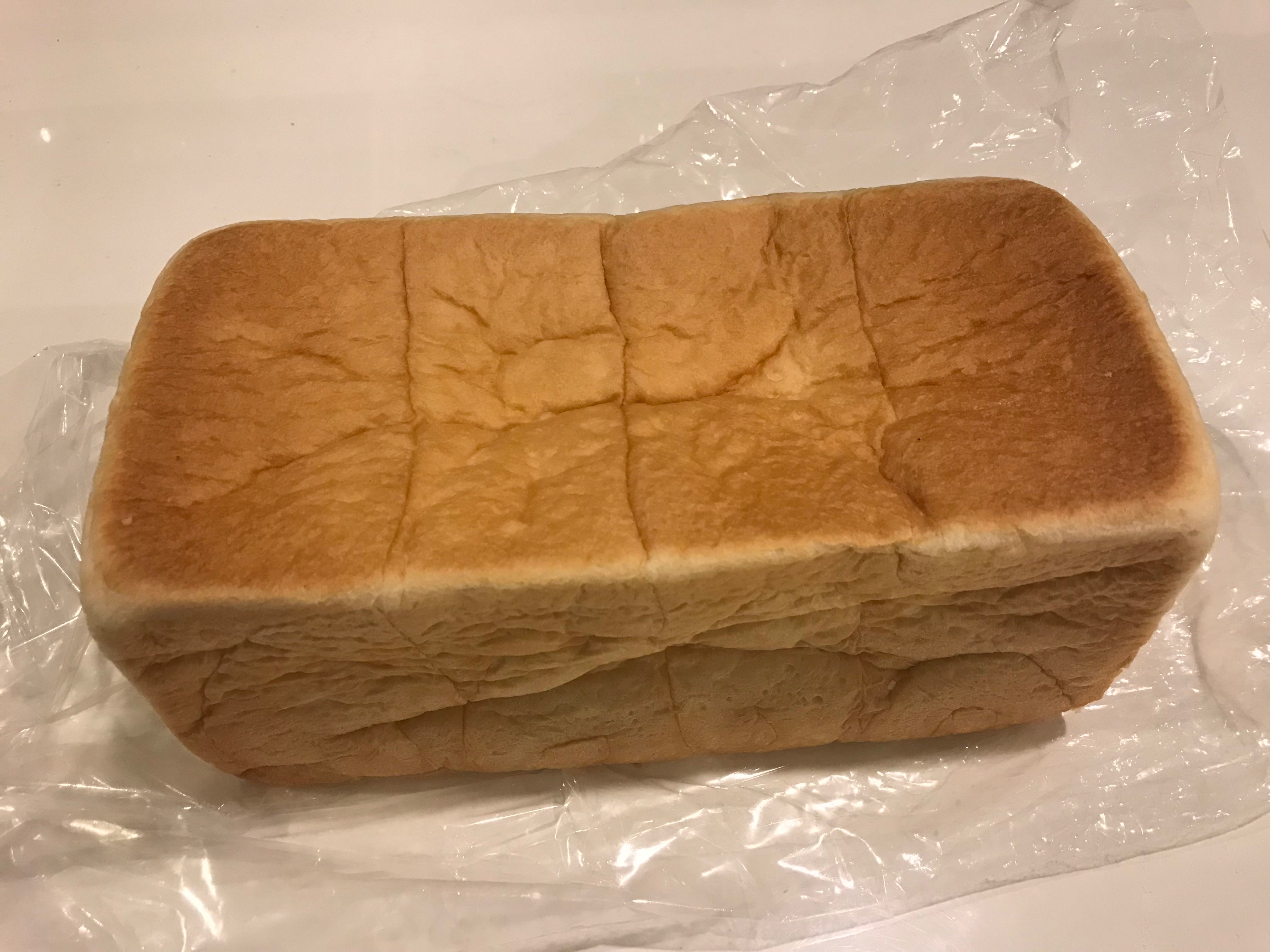 Bread of Nogami, bread shop in Japan